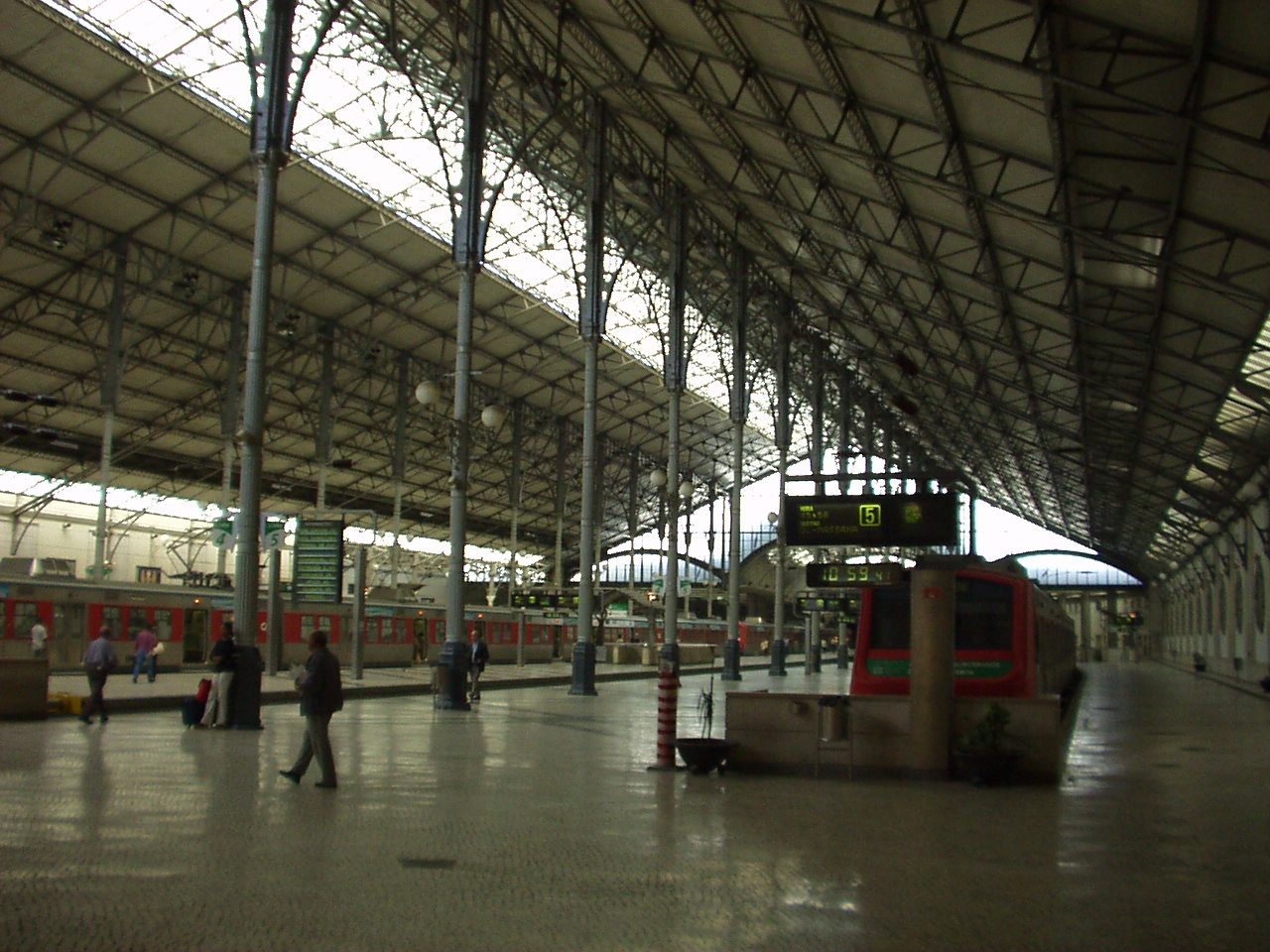 Rossio train station in Lisbon